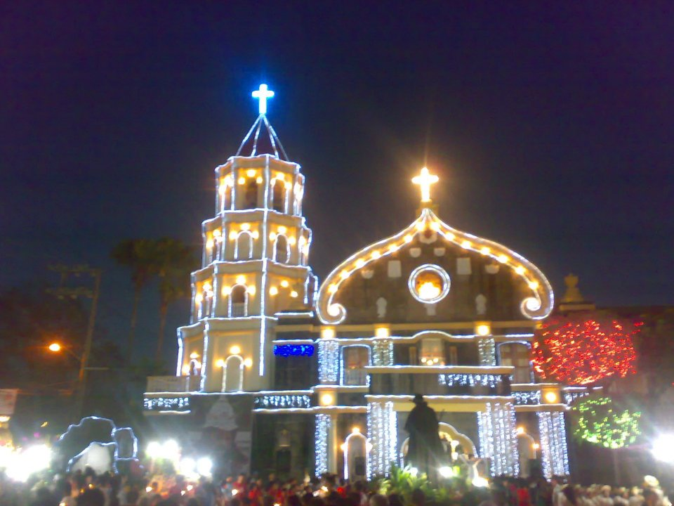 The Plaridel Church,formally known as St.James the Apostle Parish,named after the St.James of Compostela,Spain.